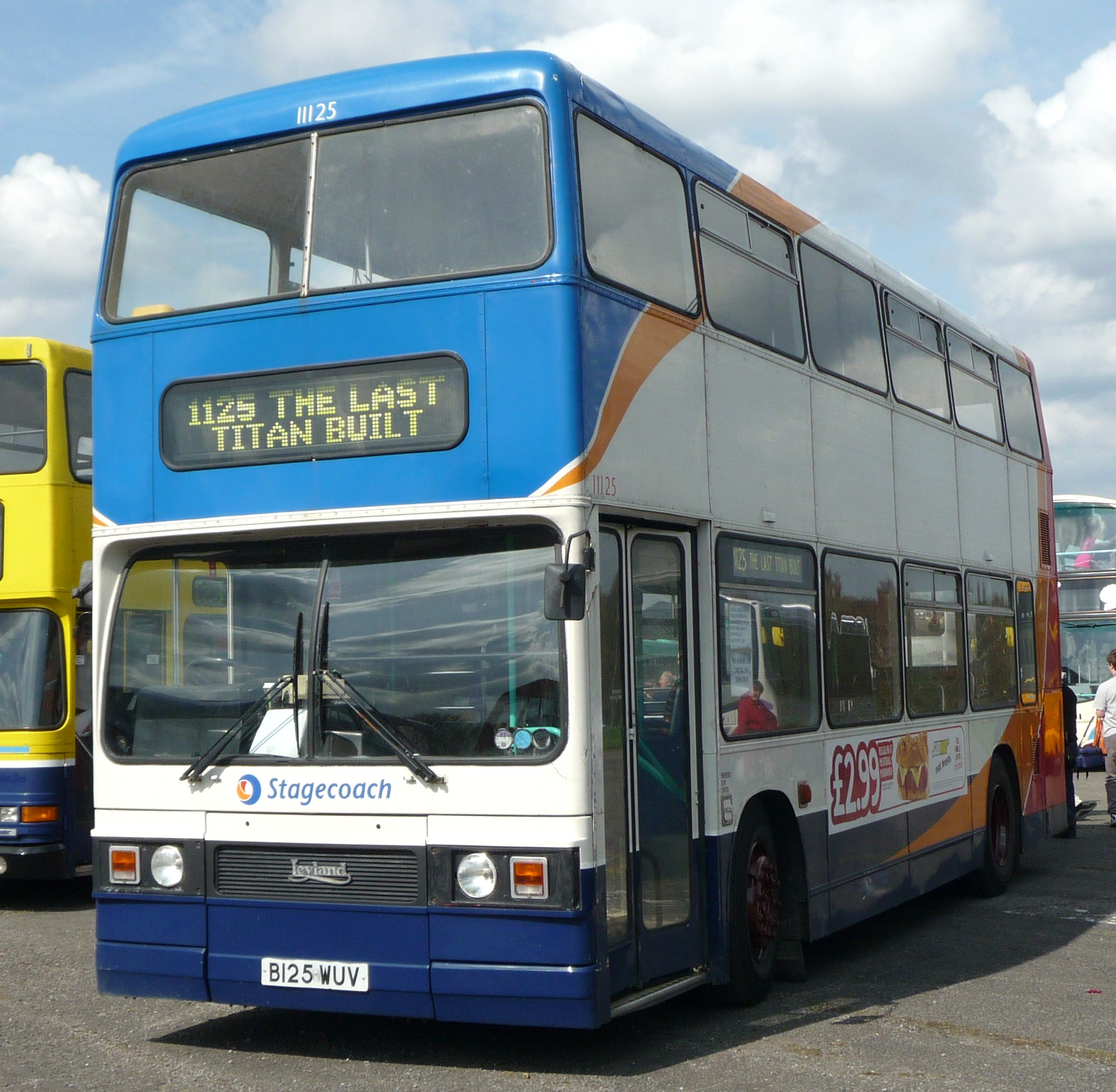 Preserved Stagecoach in East Kent bus 11125 (reg. B125 WUV), a Leyland Titan (B15), pictured at the 2009 Cobham bus rally at Wisley Airfield. As the dot matrix destination display proclaims, 11125 was the last production Titan ever built, from a total run of 1,185. It was outshopped in November 1984 from the production line at Leyland's expanded factory in the Lillyhall Industrial Estate in Workington (earlier ones were built by British Leyland subsidiary Park Royal Vehicles in Park Royal, London). As with the vast majority of production, it was delivered new to London Transport as part of the dual-door T-class, allocated fleet number T1125 (with second hand purchases, the London Transport fleet numbering eventually reached T1131). As part of the privatisation process it entered the Stagecoach Selkent fleet in 1994, before being transferred out of London to Stagecoach's East Kent division in 1997. There it was renumbered 1185, then 7285 in 1999, and finally 11125 in 2003 as part of the nationwide numbering scheme. It operated until 2005, when it passed into the company's preservation fleet, appearing at various rallies and events. In 2008 it was purchased by another Kent operator, Autocar, who have continued to take it to rallies, as pictured here, while still in its former owner Stagecoach's livery. The dot matrix display is not original, having been fitted by Stagecoach presumably. At some point in its life, probably also at Stagecoach, the centre door has also been removed.